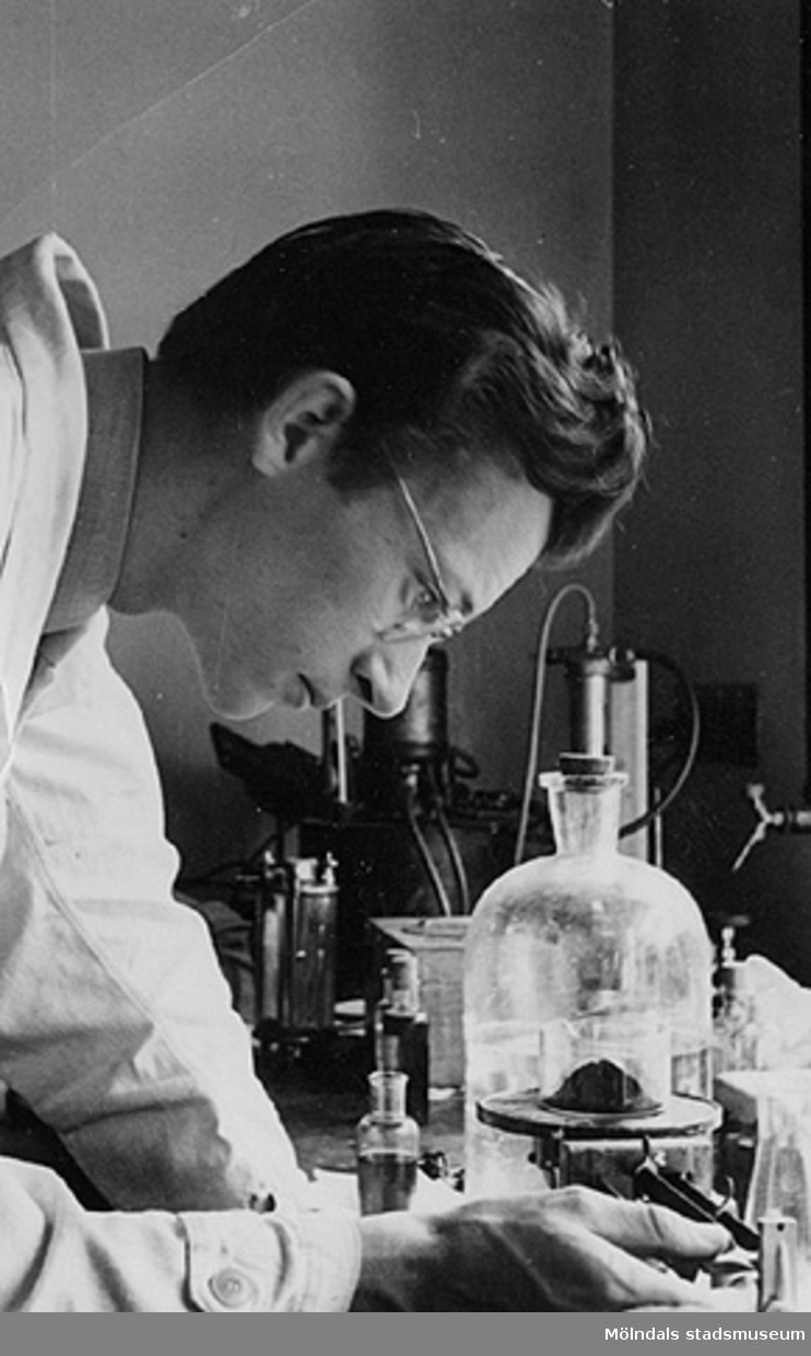 Author Karl-Axel Häglund (1943-1946). Here in his role as chemist at Svenska Oljeslageri AB (SOAB) in Molndal, Sweden. Photographer: Greta Karlsson